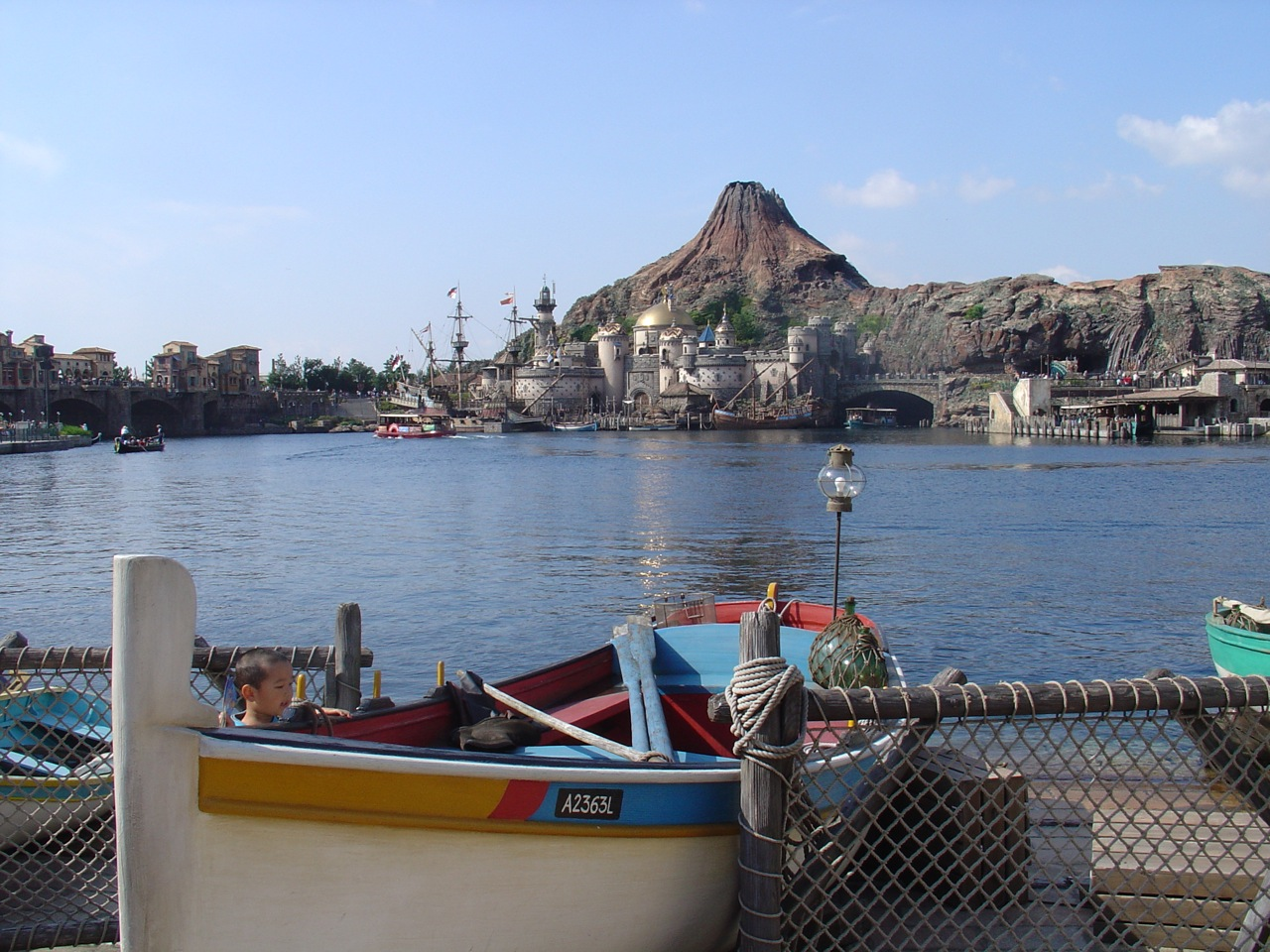 Tokyo DisneySea in 2006